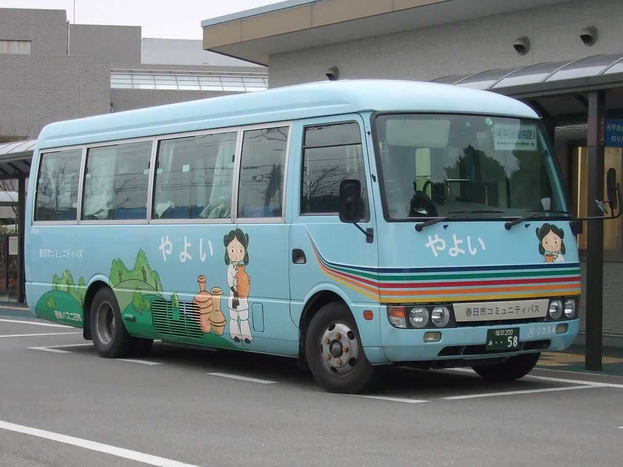 Fuso Rosa KK-BE63EG with body by Mitsubishi Fuso Truck and Bus Oe bus factory for Kasuga City community bus operated by Nishitetsu Bus Futsukaichi Tsukinoura Headquarters #0334 (license plate: Fukuoka 200 A 58) at Kasuga City Community Bus Center, Fukuoka Prefecture, Japan